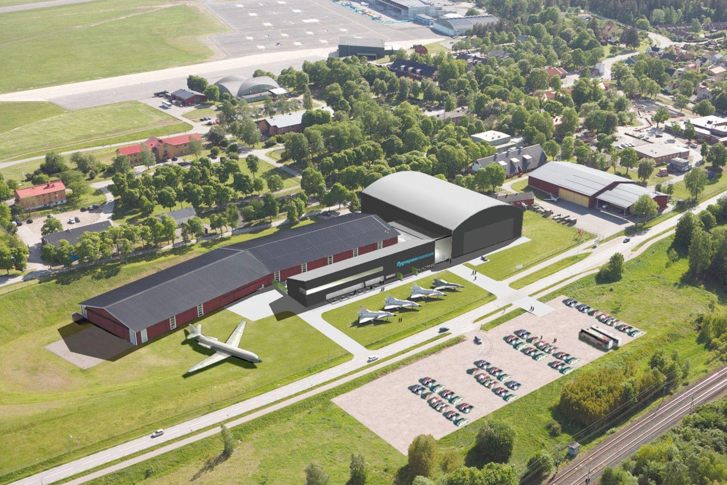 Overview of the new Swedish Air Force Museum after rebuilding that will be completetd 12th of june 2010.